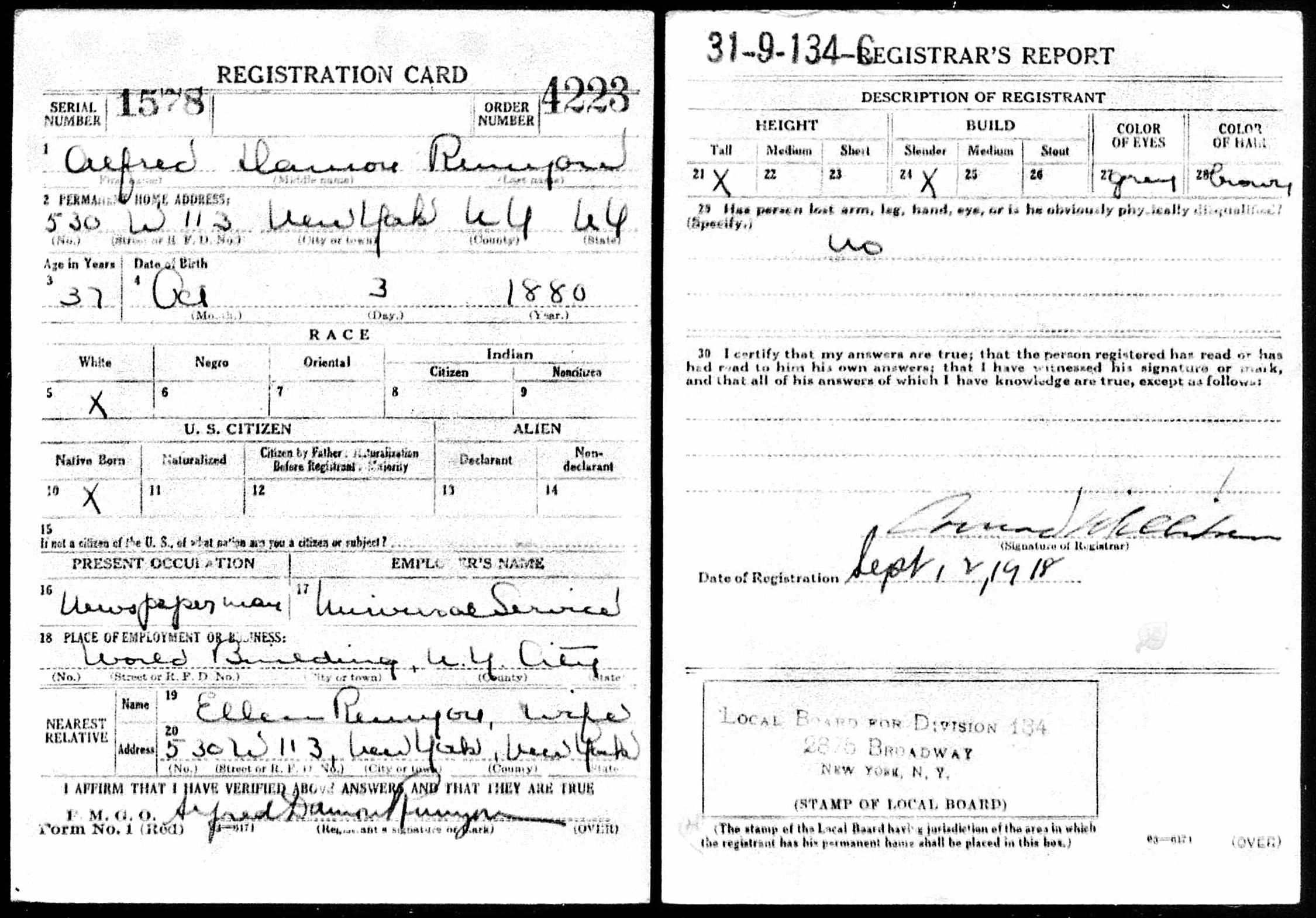 World War I Selective Service System draft registration card for Alfred Damon Runyon